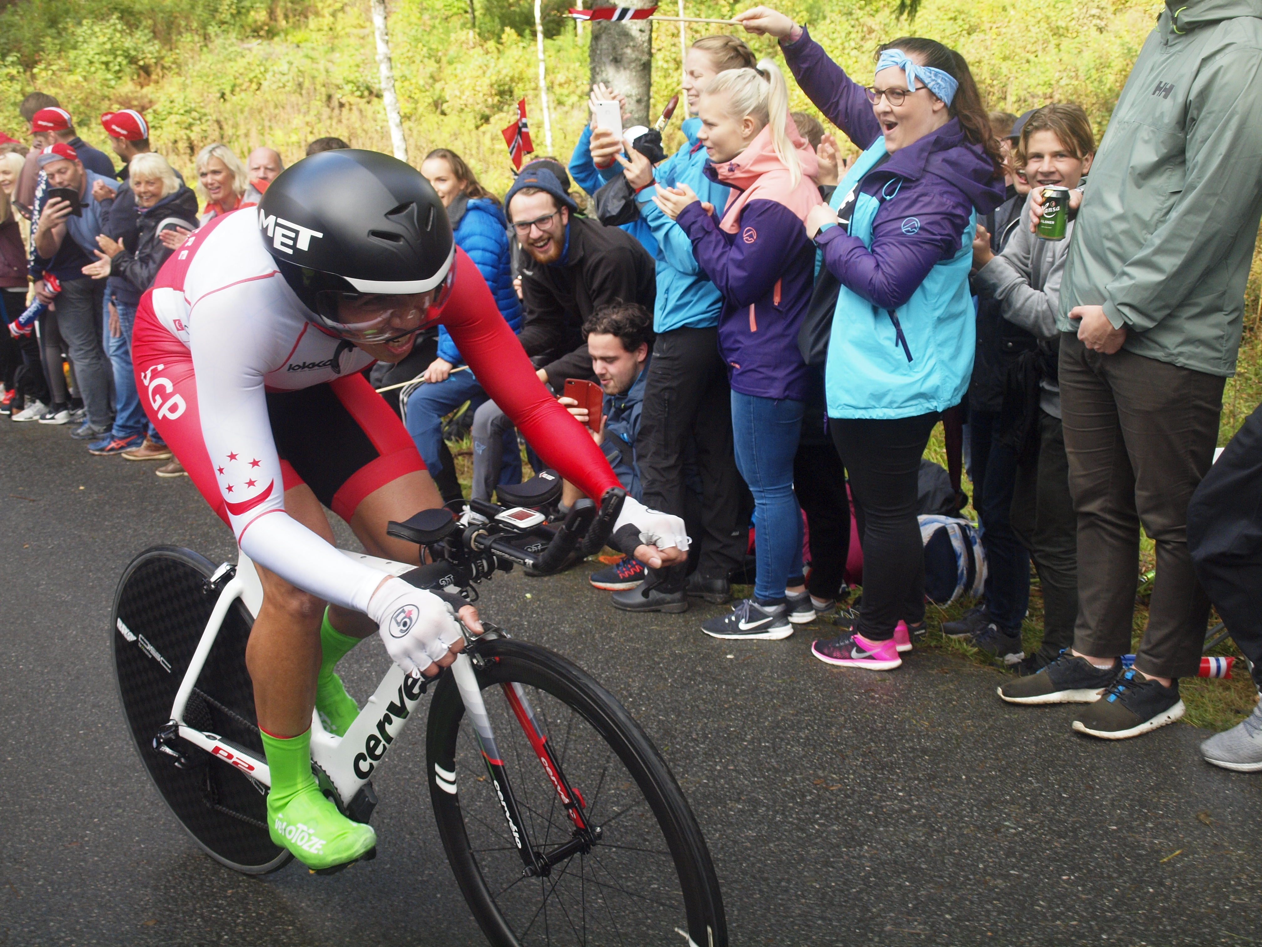 Gabriel Tan at the 2017 UCI World Championships